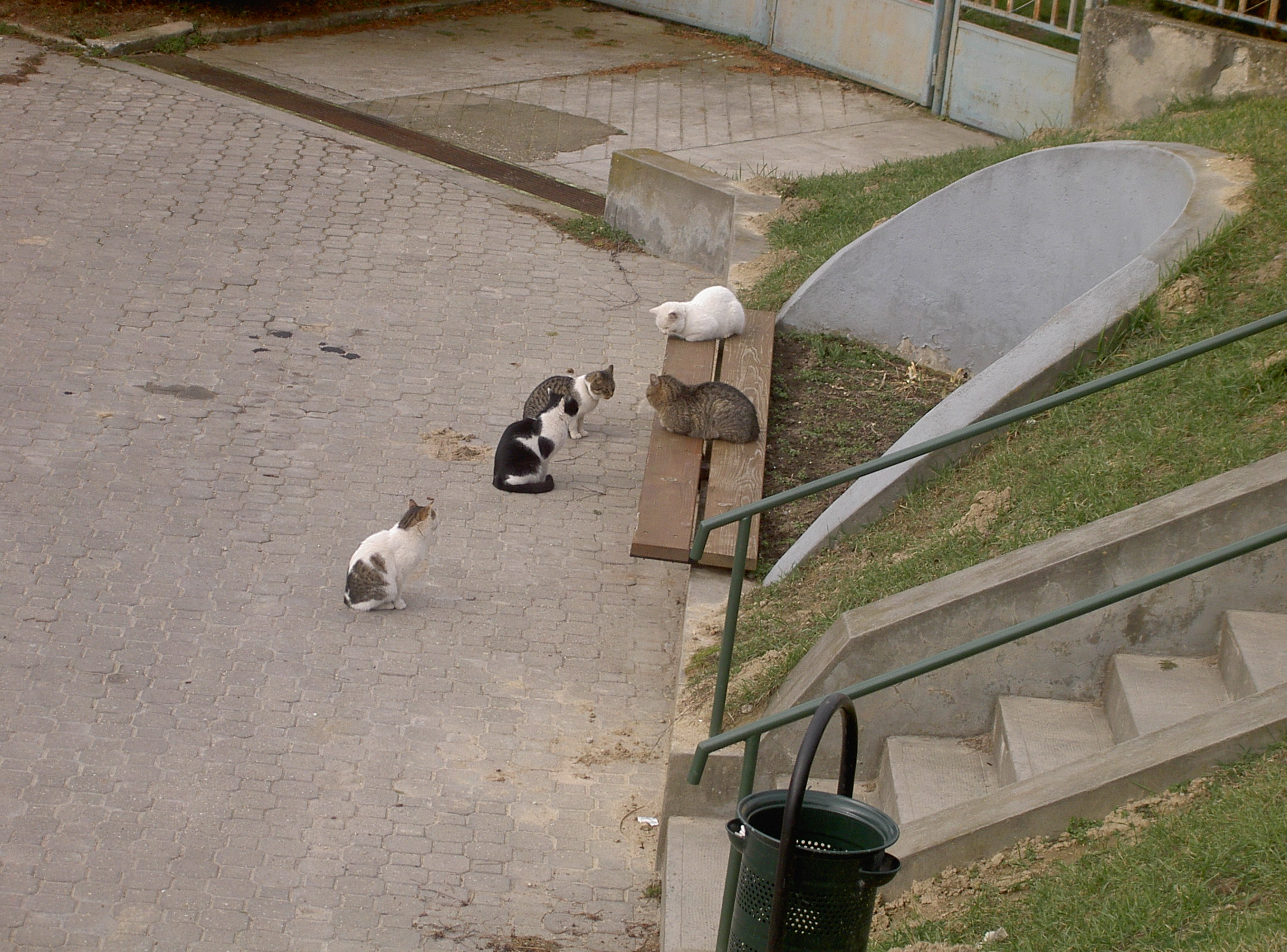 Cats in the street.